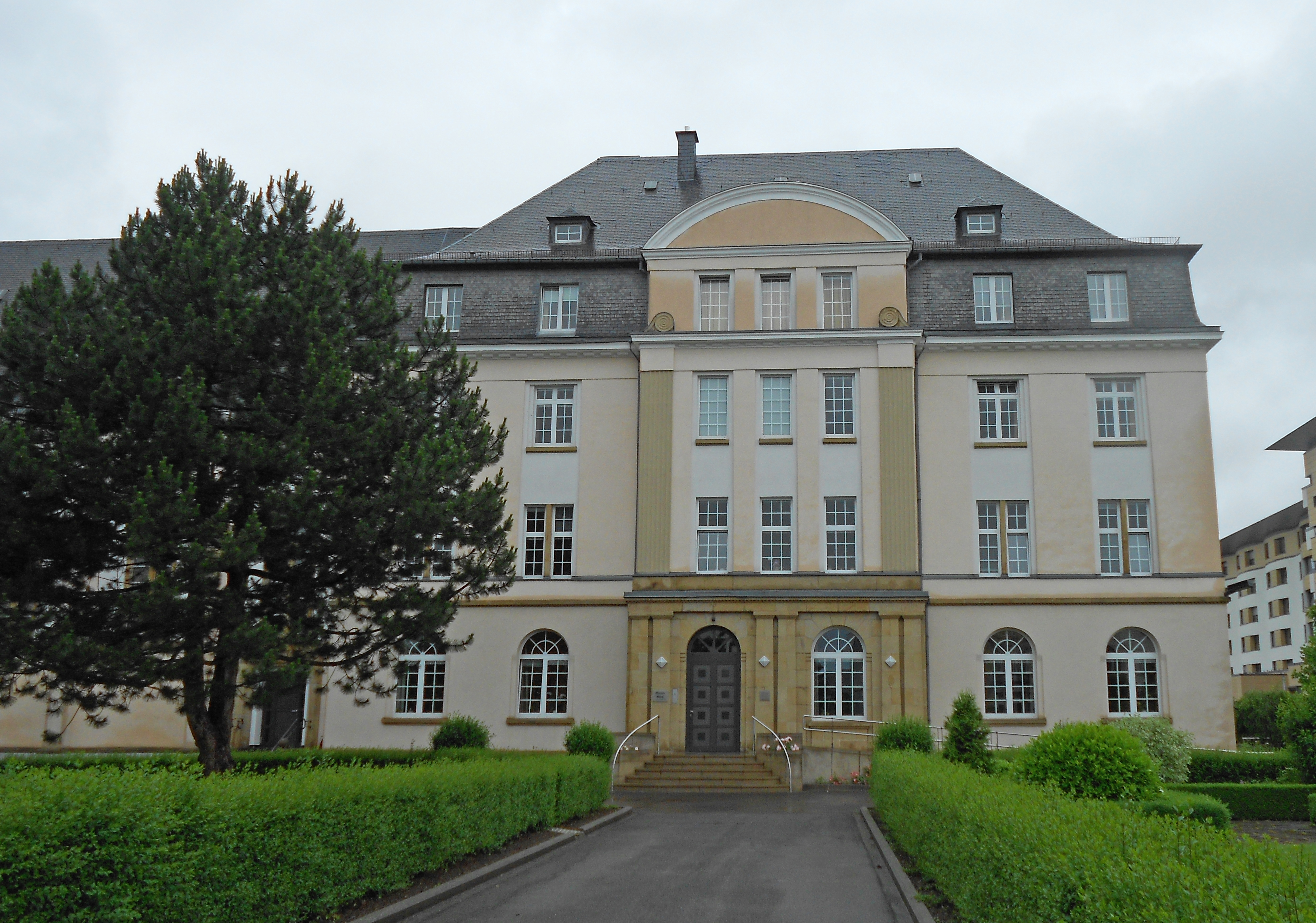 Mother house of the Fransiscan nuns in Belair, in the city of Luxembourg.